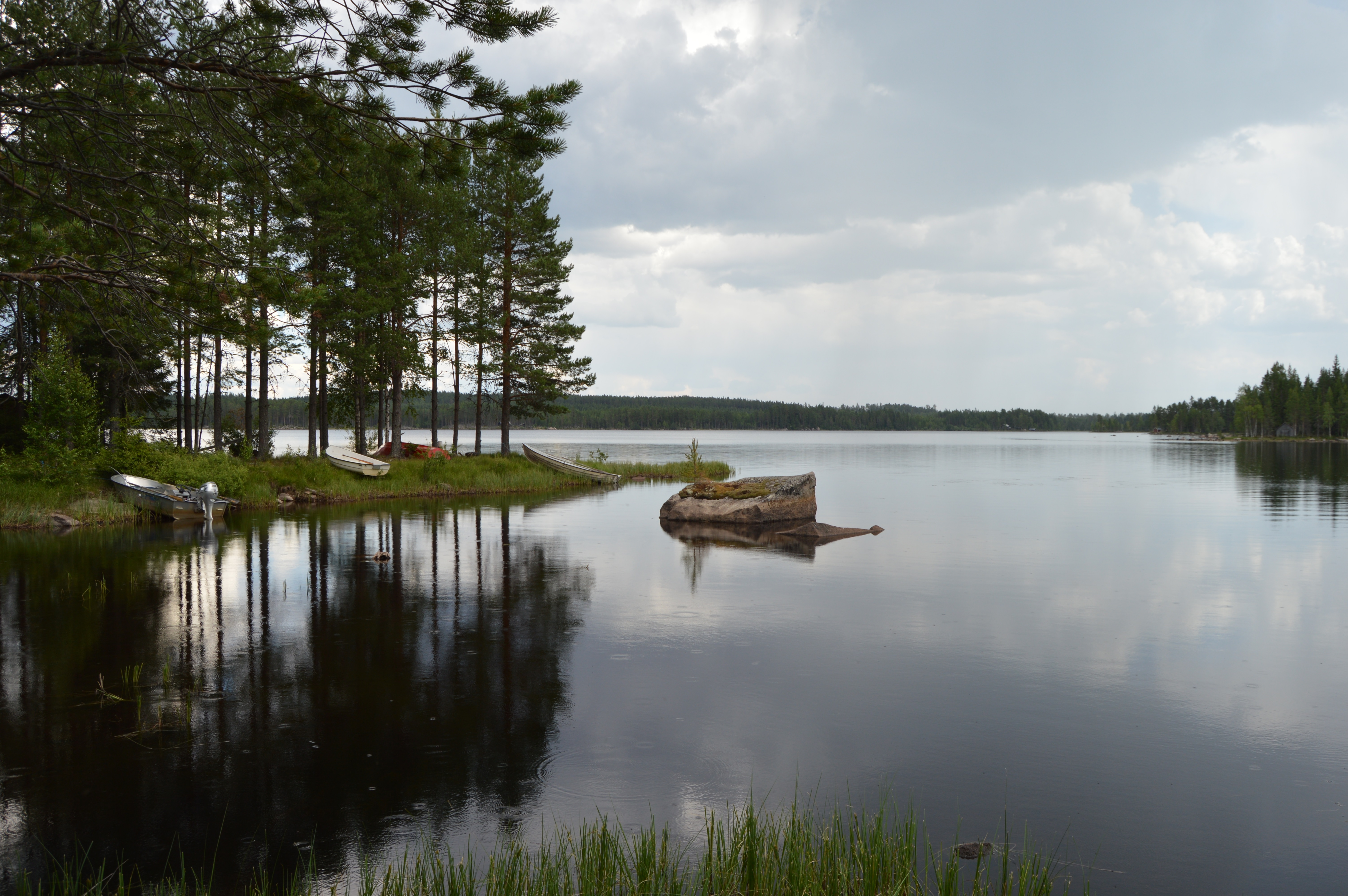 Kappsjön part of the lake Holmsjön in Malung, Dalarna, Sweden.